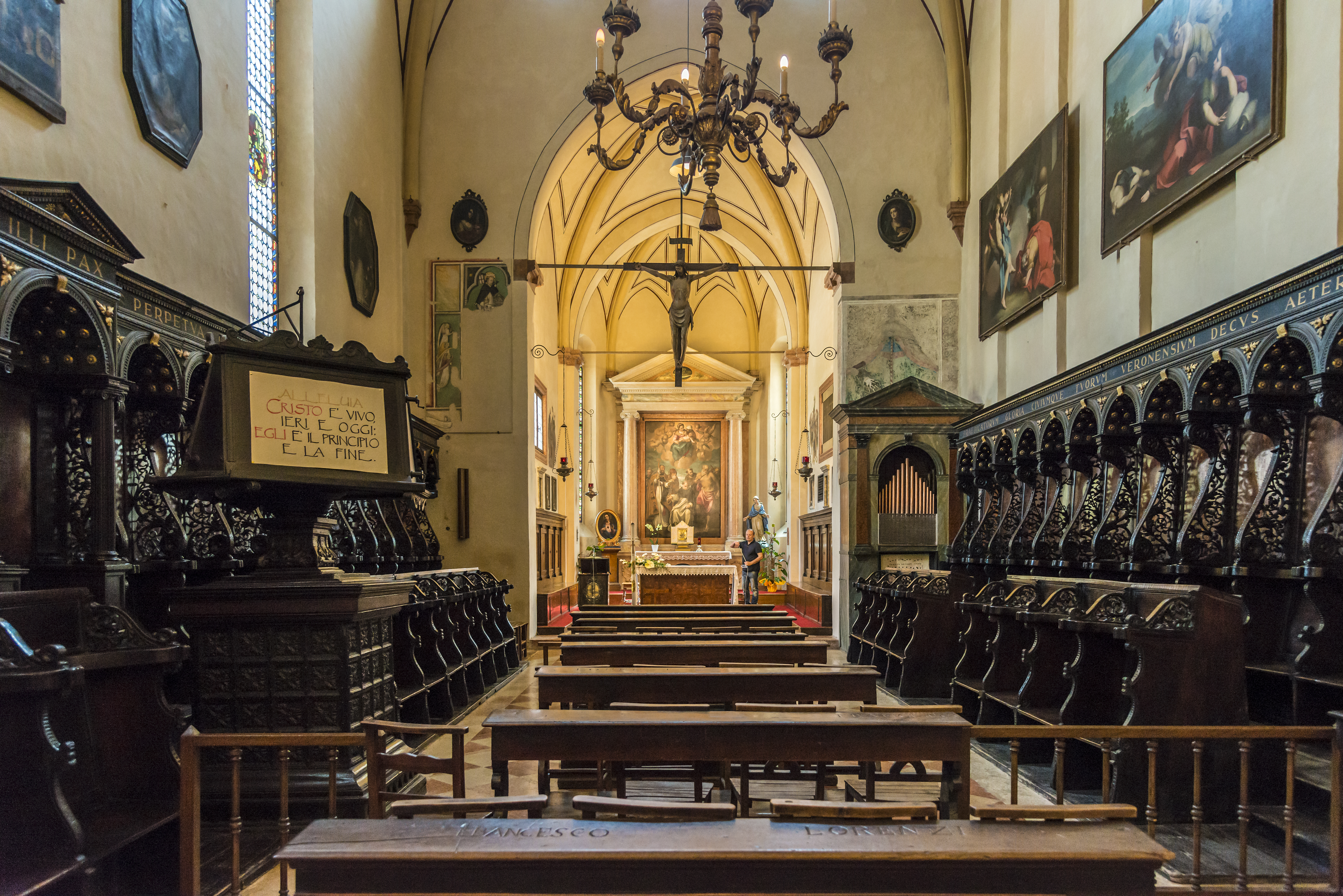 Basilica Santa Anastasia. The Giusti chapel was arranged in 1452. The stained glass windows date from 1460. The remarkable wooden stalls are the work of master Lorenzo di Santa Cecilia conducted between 1491 and 1493. Initially these were stalls in front of the choir of the basilica, they were moved in 1591 in the apsidal chapel, then in 1942 transferred to the chapel current. The altar is dedicated to St. Vincent dates from 1647. The painting of the altarpiece of Felice Riccio, painted around 1598. It represents a Virgin and Child with St. Anne, Saints Augustine, Jerome, Maximus, and Gregory Vincent Ferrer. The eighteenth-century choir organ comes from church of Santa Maria in Chiavica he was placed there in in 1971.